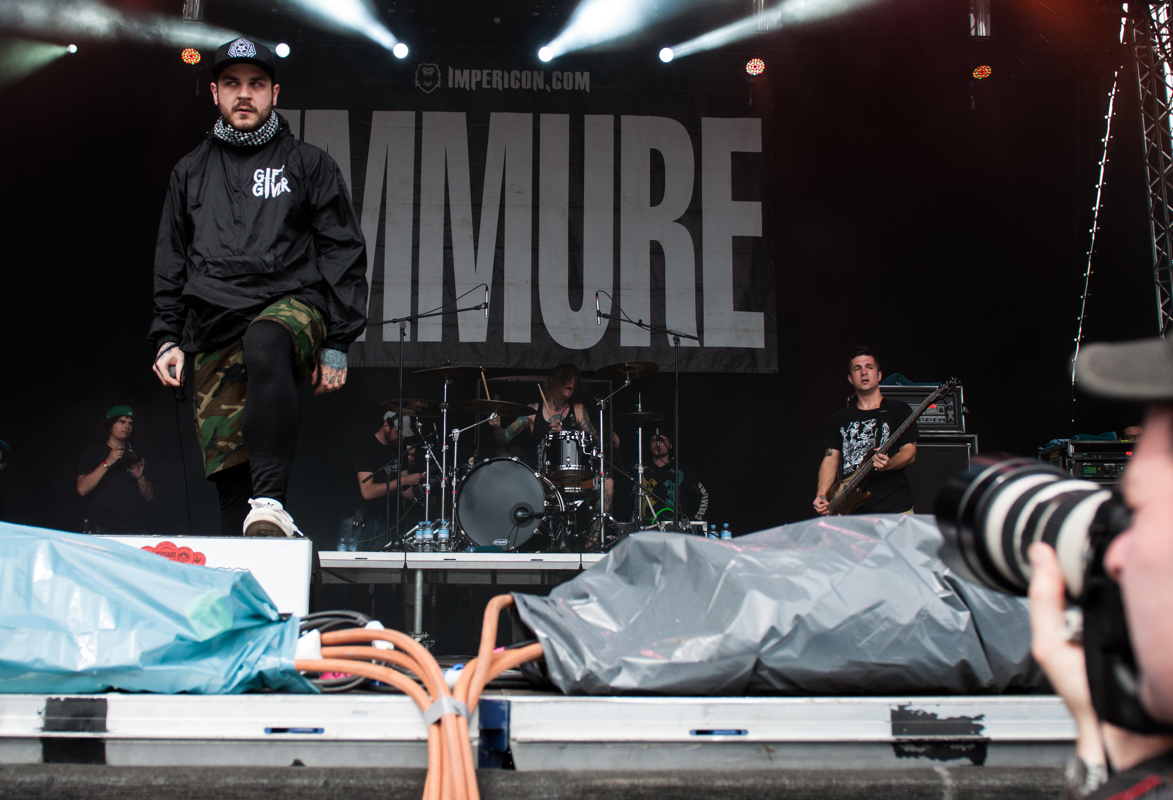 Emmure at Vainstream Rockfest 2014